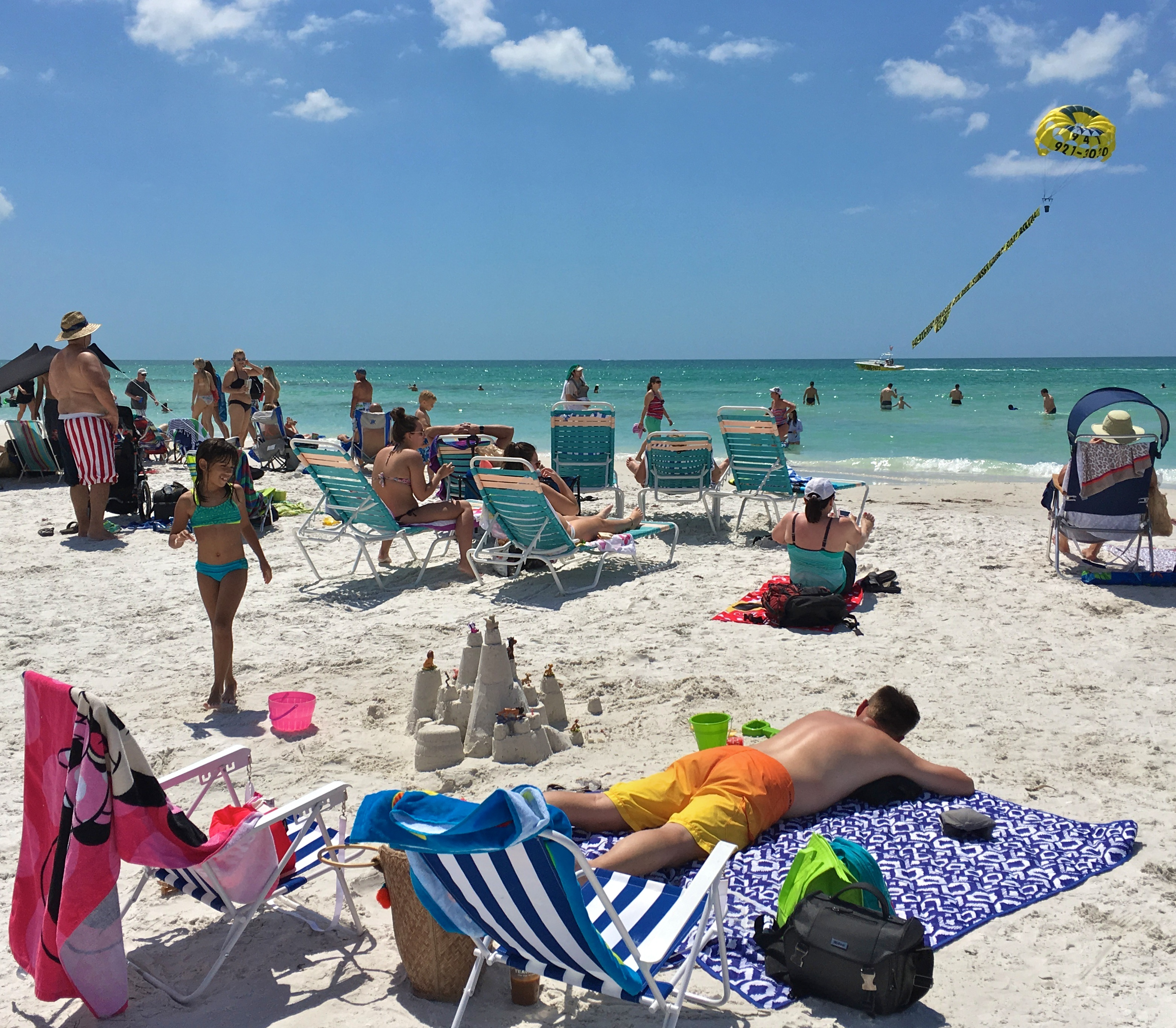 A Aerial advertising at Crescent Beach on Siesta Key